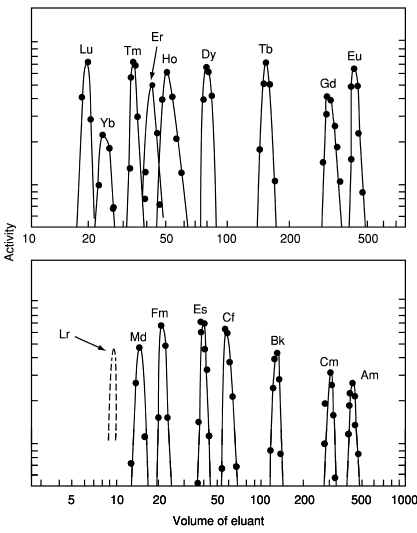 Elution sequence of the trivalent lanthanides and actinides from a Dowex 50 cation‐exchange resin column at 87 °C, using ammonium α-hydroxyisobutyrate (ammonium α-HIB) as the eluant. The broken curve for element 103 (Lr) shows an estimate based on its predicted atomic radius, as its half-life is too short to confirm its position in the elution sequence.